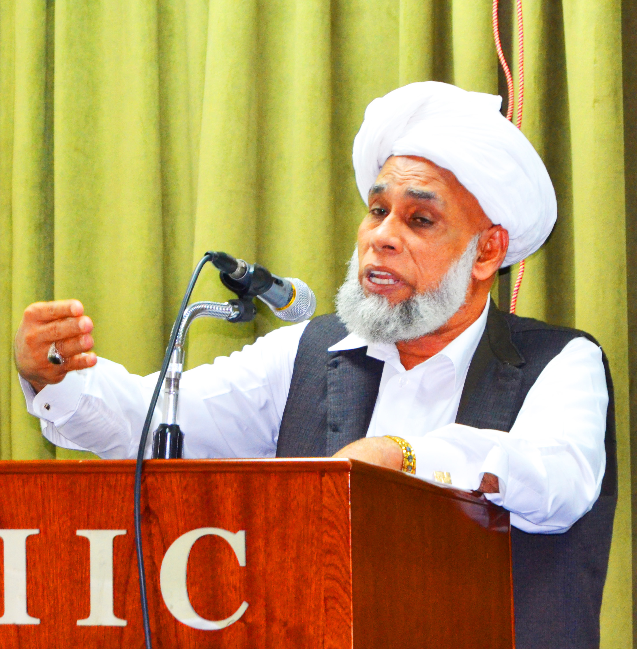 Sayyid Muhammad Jifri Muthukoya Thangal Addresses a public function at Indian Islamic Centre, Abu Dhabi on 21st Nov., 2014.